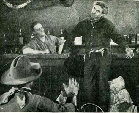 Still from the American silent western film Sundown Slim (1920), part of a photo-play on page 33 of the January 1921 Film Fun. Still 2: "Before getting a job as a ranch cook, Sundown (Harry Carey) had been a tramp-poet."